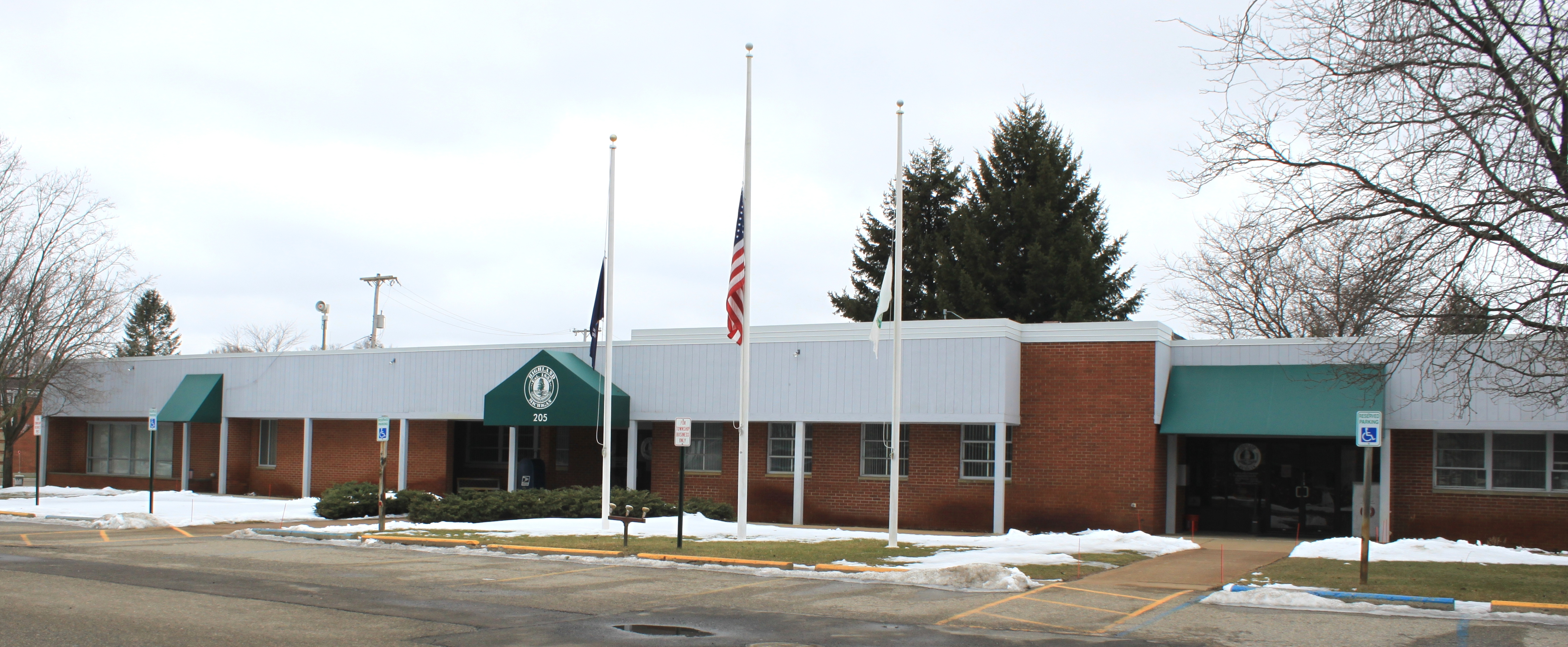 Highland Township offices, 205 North John Street, Highland Township, Oakland County, Michigan